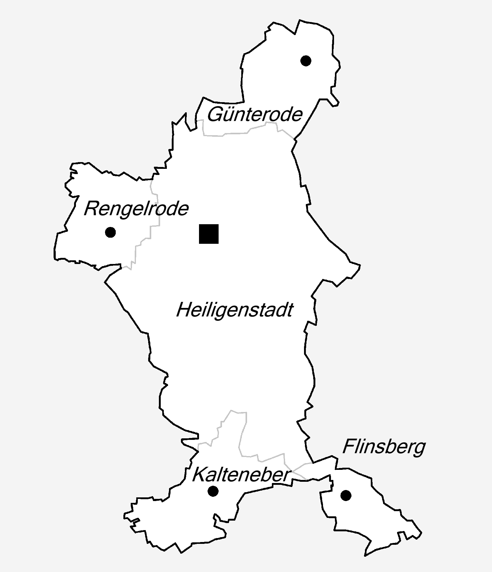 Locator map of the city Heilbad Heiligenstadt, Landkreis Eichsfeld.